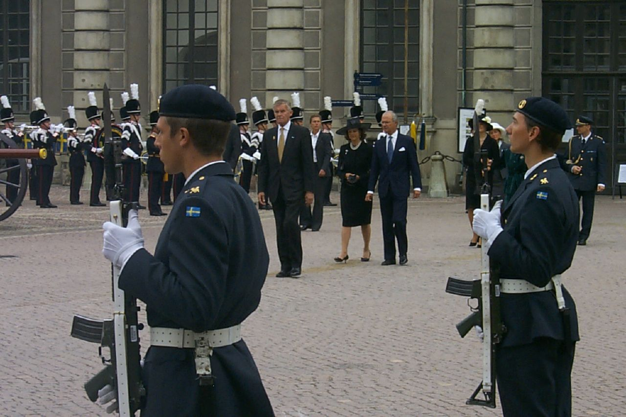 The King and Queen of Sweden process across the courtyard of the Royal Palace on their way to open parliament.